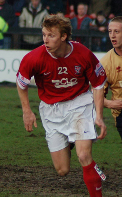 Martyn Woolford. Image cropped from original at flickr.